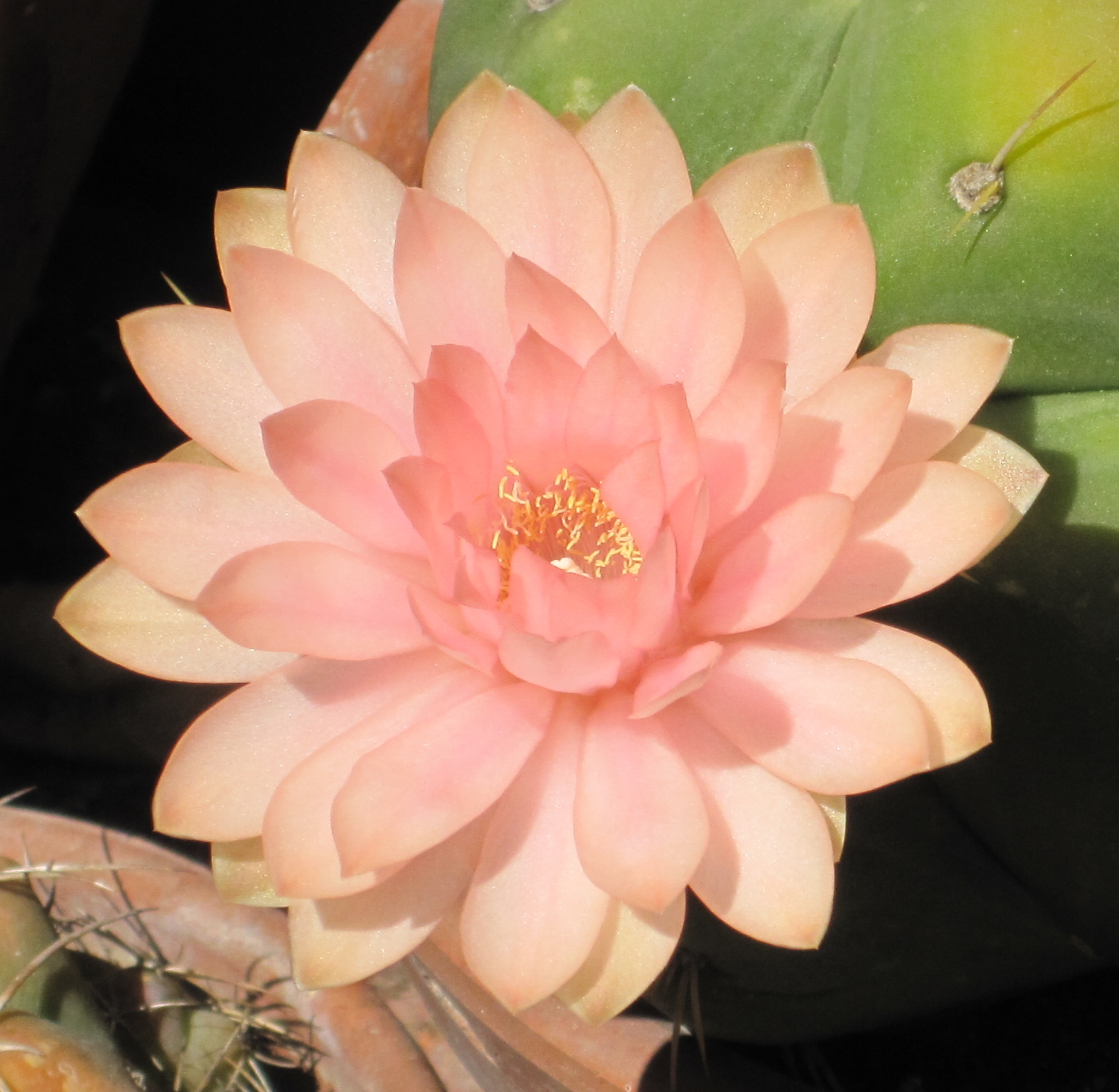 The flower of gymnocalycium horstii